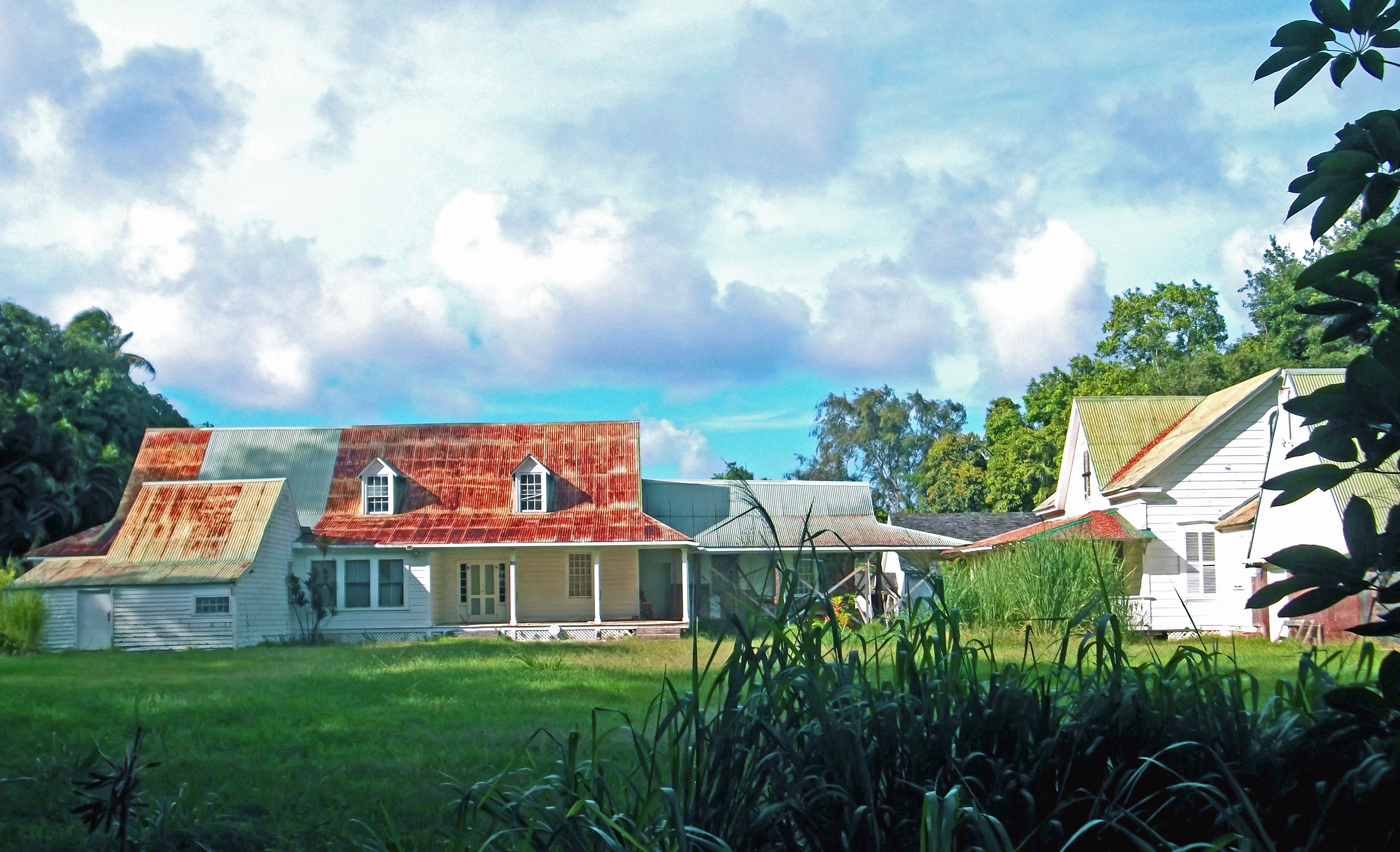 The Bond House homestead compound — within the Bond Historic District, Hawaiʻi. Located in Halaʻula, in the Kohala district on the northern coast of the Big Island of Hawaiʻi.